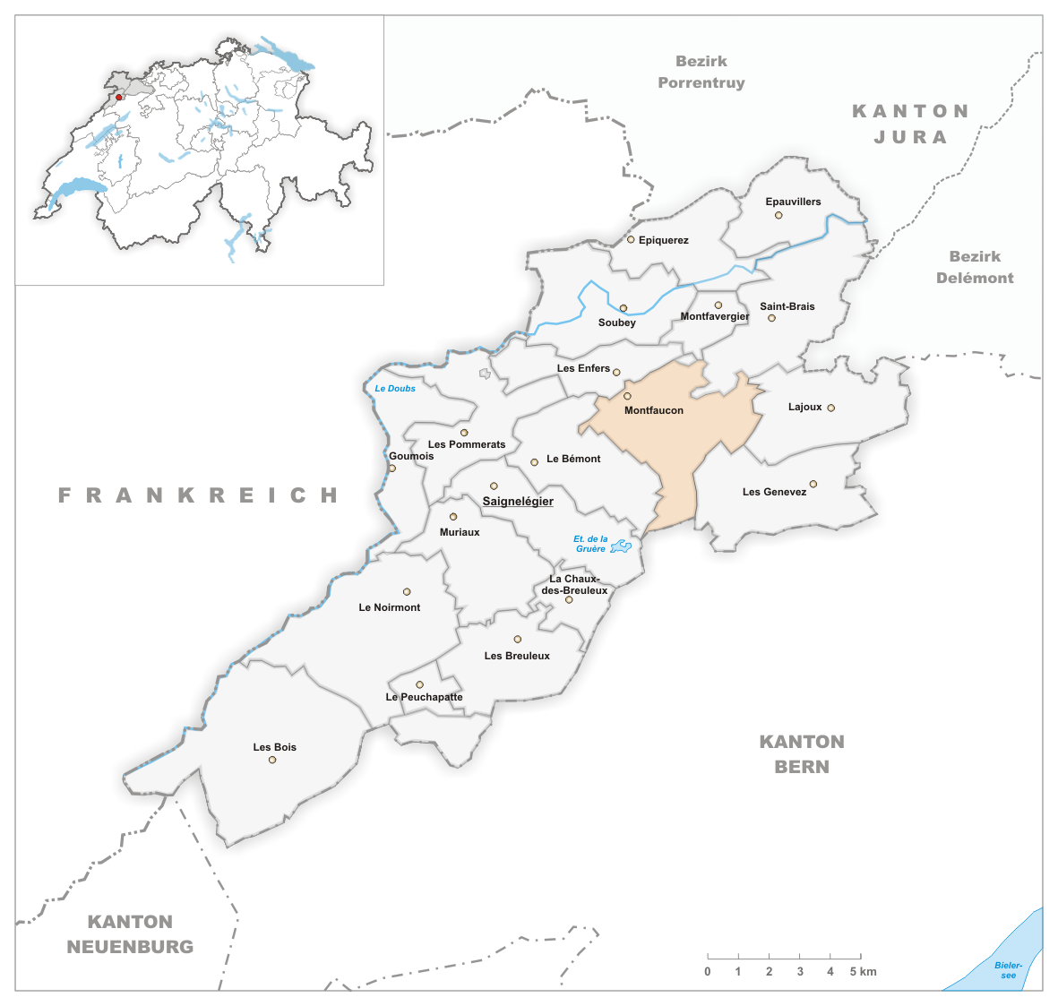 Municipality Montfaucon